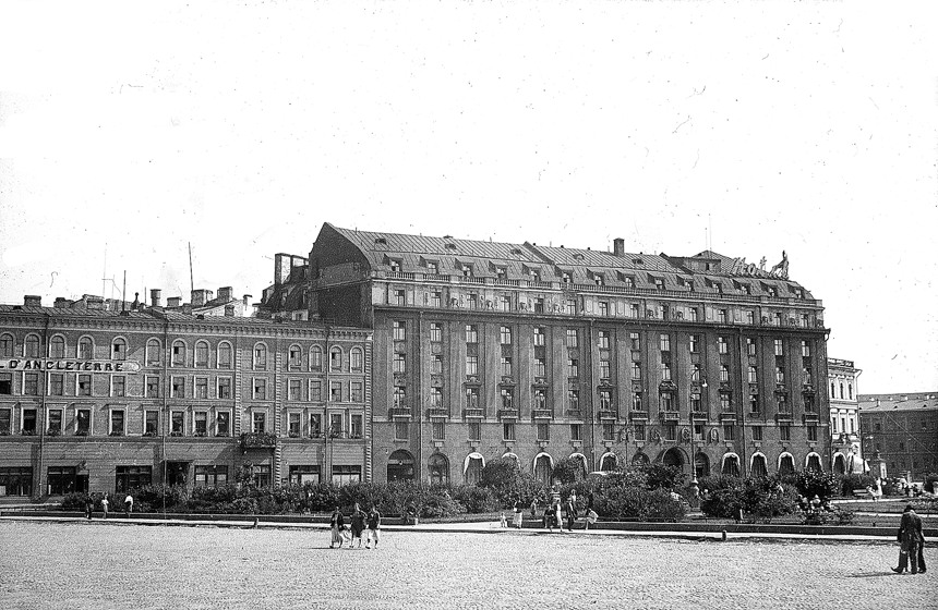 Angleterre and Astoria Hotels, Saint Petersburg, Russia